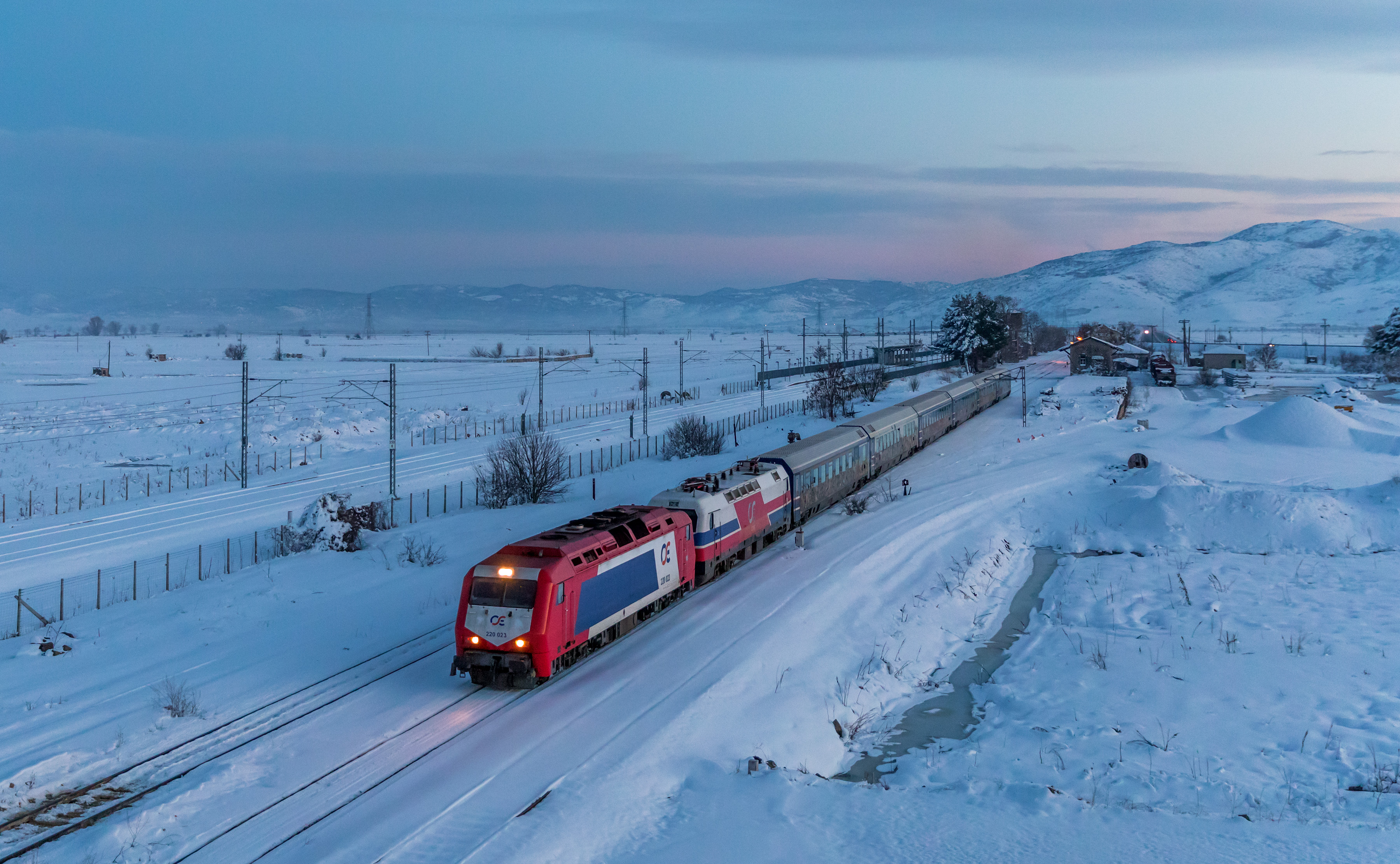 TrainOSE "Adtranz" 220 023 is just leaving the old station of Aggeie with an unidentified HellasSprinter and the IC 56 Athens - Thessaloniki.